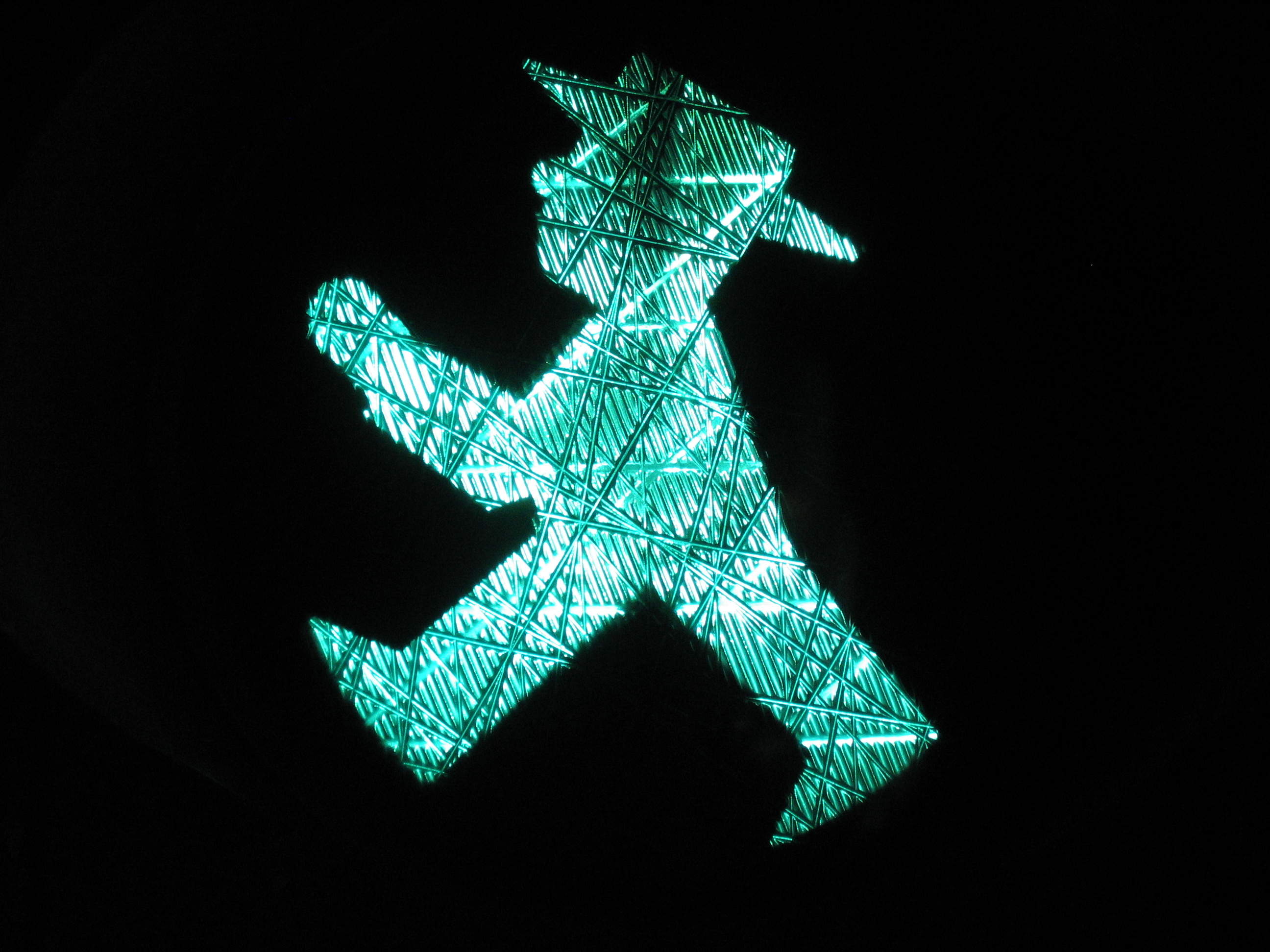 Ampelmännchen - traffic light ("GO") at pedestrian crossings in Berlin